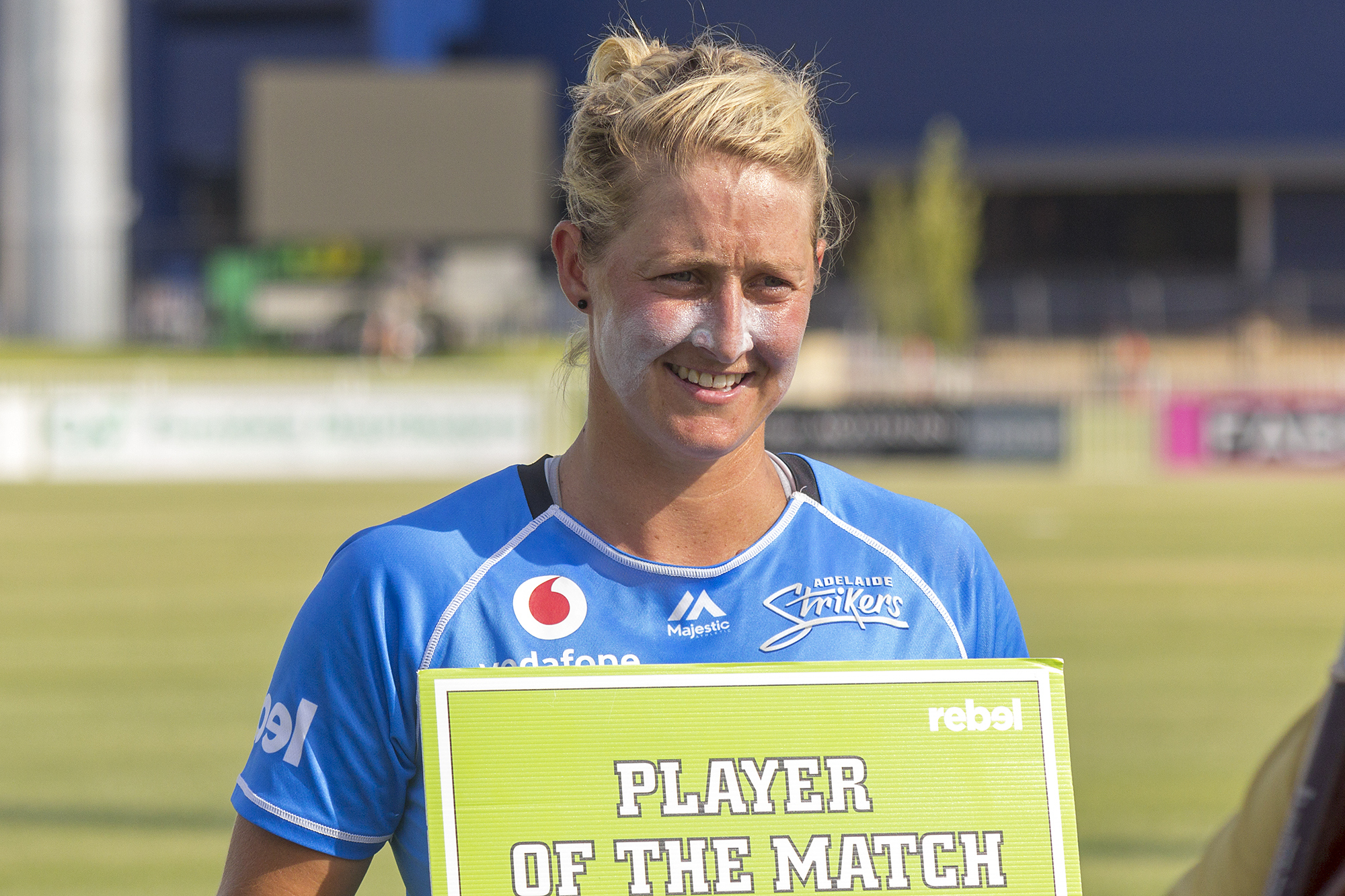 Sophie Devine after the Sydney Thunder vs Adelaide Strikers WBBL game at Robertson Oval